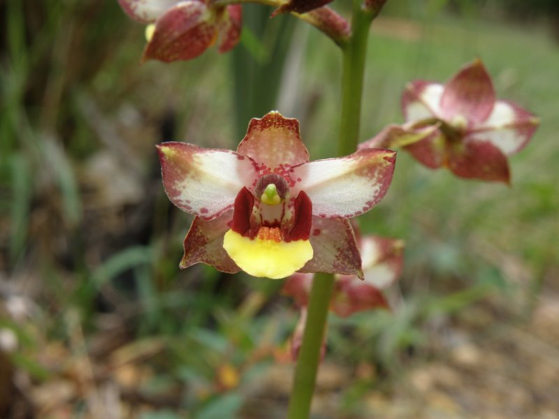 Cyrtopodium kleinii